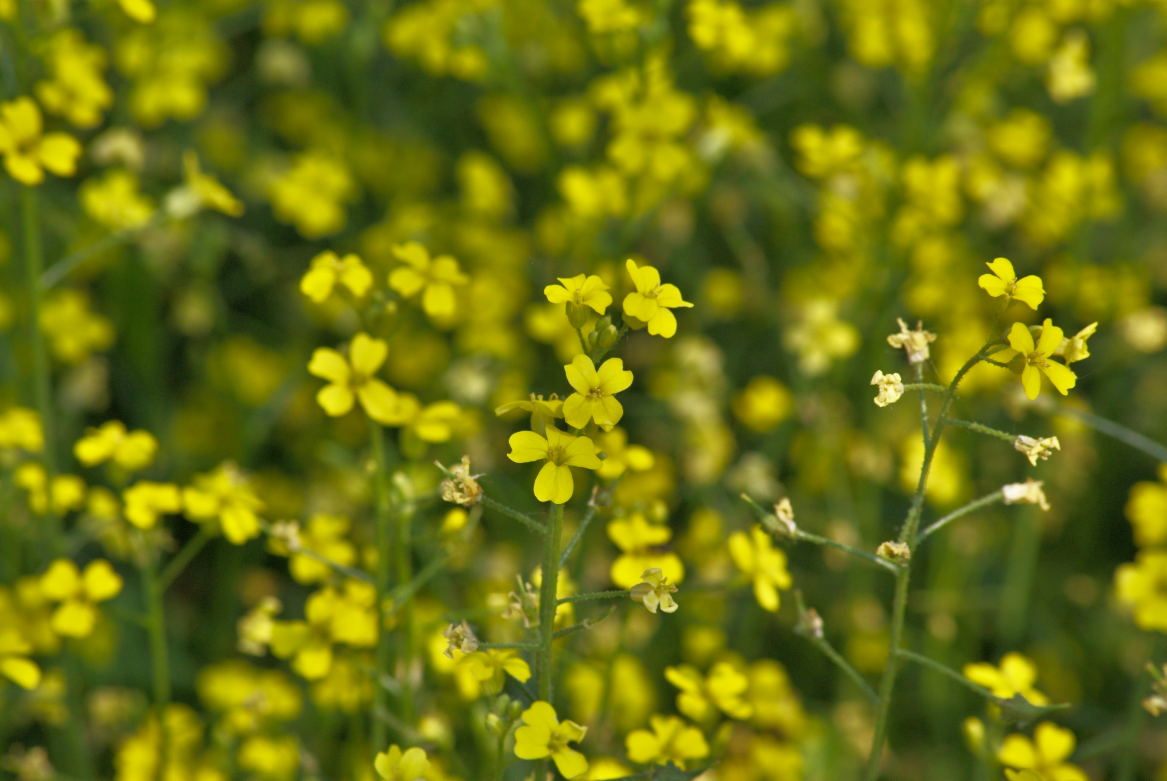 Bunias erucago